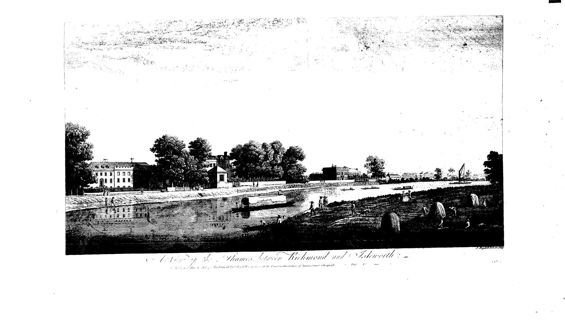 View of the Thames between Richmond and Isleworth from John Boydell, A collection of views in England and Wales, drawn and engraved by John Boydell. To which are added, engraved by the same hand, some miscellaneous subjects after various masters. London: sold by John and Josiah Boydell, 1790.